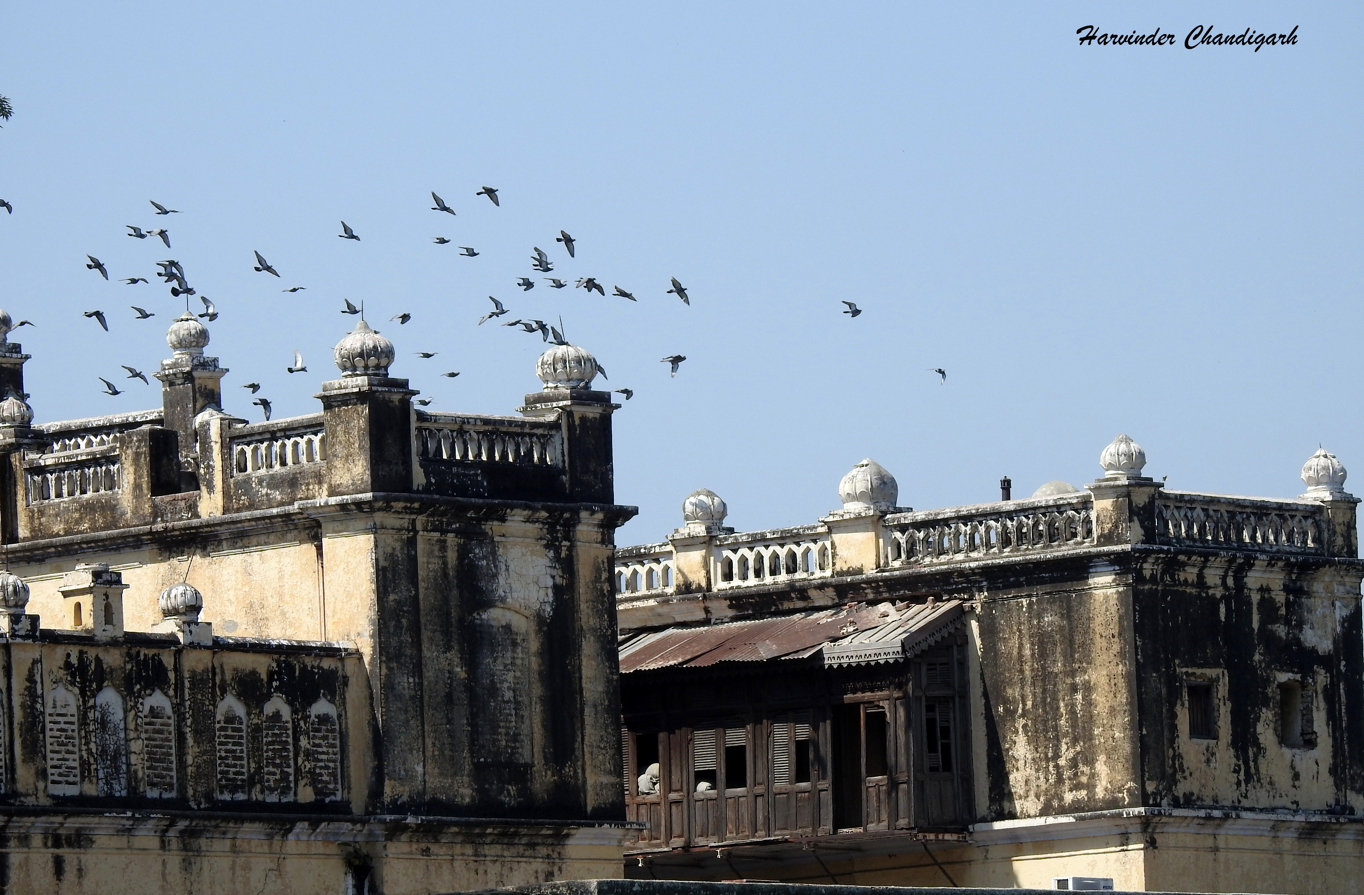 Raja Hira Singh, who ruled from 1871 till his death in 1911, built most of the structure of Nabha Fort .Nabha is the small town neighbouring Patiala which was once a princely state.